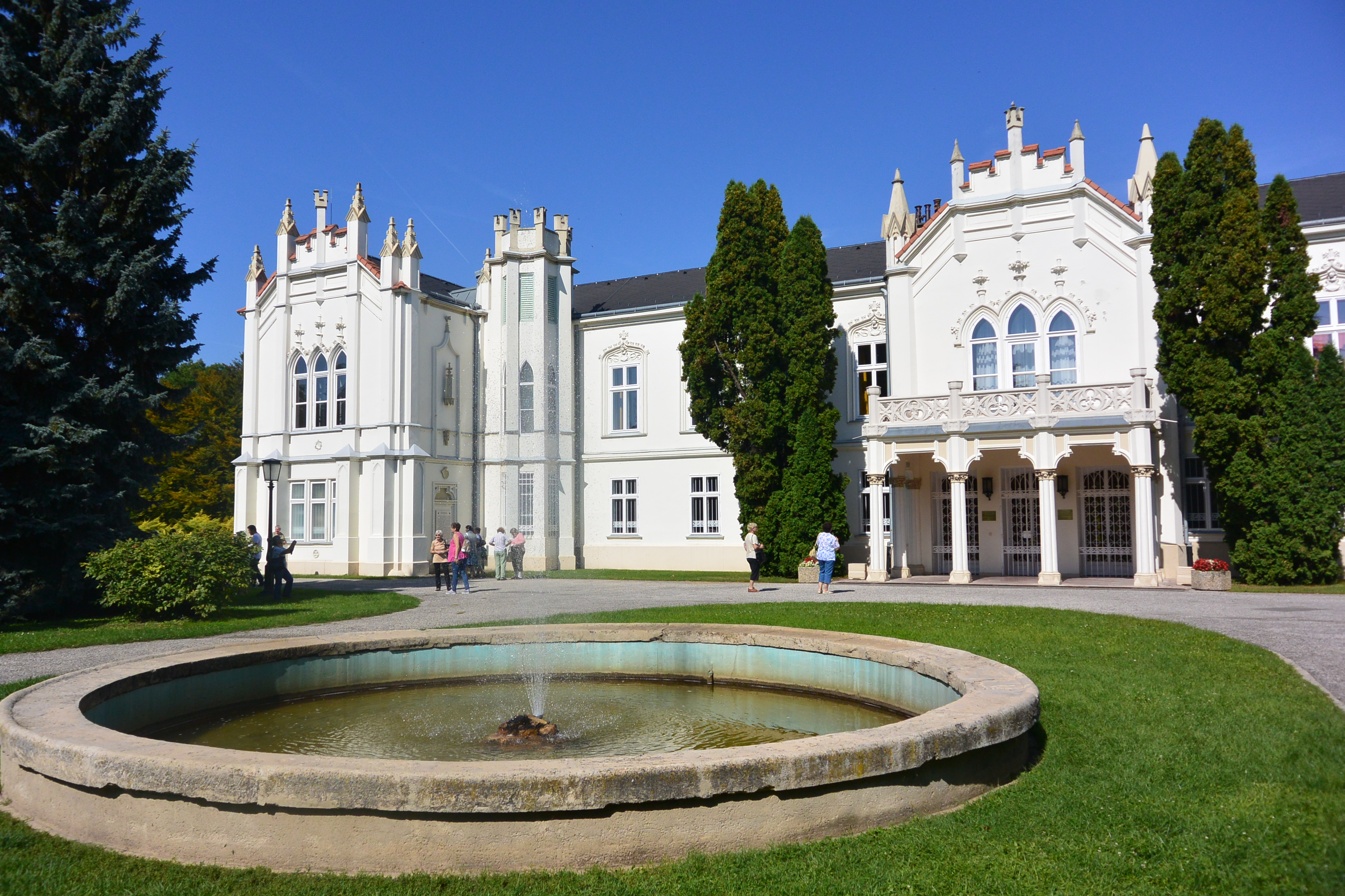 Brunszvik Mansion at Martonvásár, Hungary